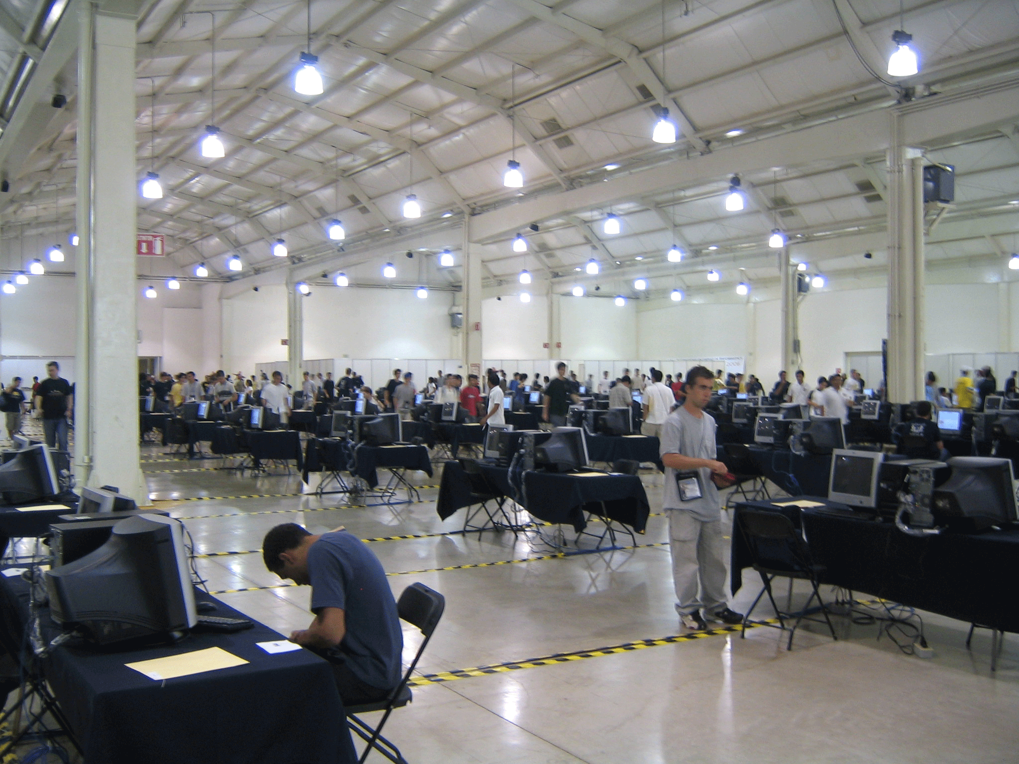 Picture from the IOI 2006 competition room after the second day